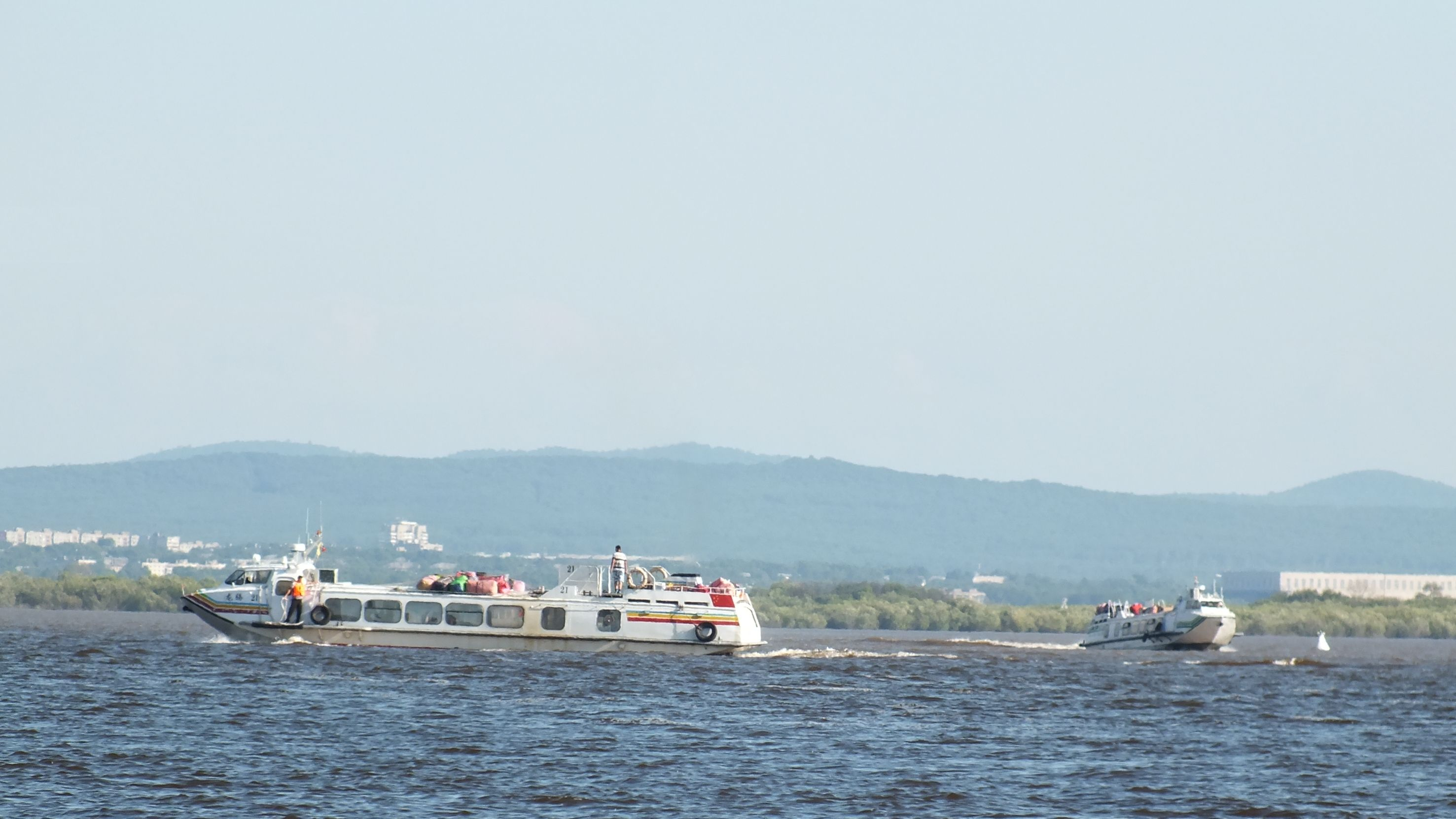 Long Teng 21 and Kapitan Yakov Lobastov arriving in Khabarovsk from Fuyuan 21 July 2016